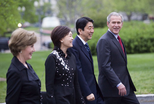 President George W. Bush and Mrs. Laura Bush walk past the press on the North Lawn with Japanese Prime Minister Shinzo Abe and his wife Mrs. Akie Abe Thursday, April 26, 2007, as they arrive for a social dinner at the White House.